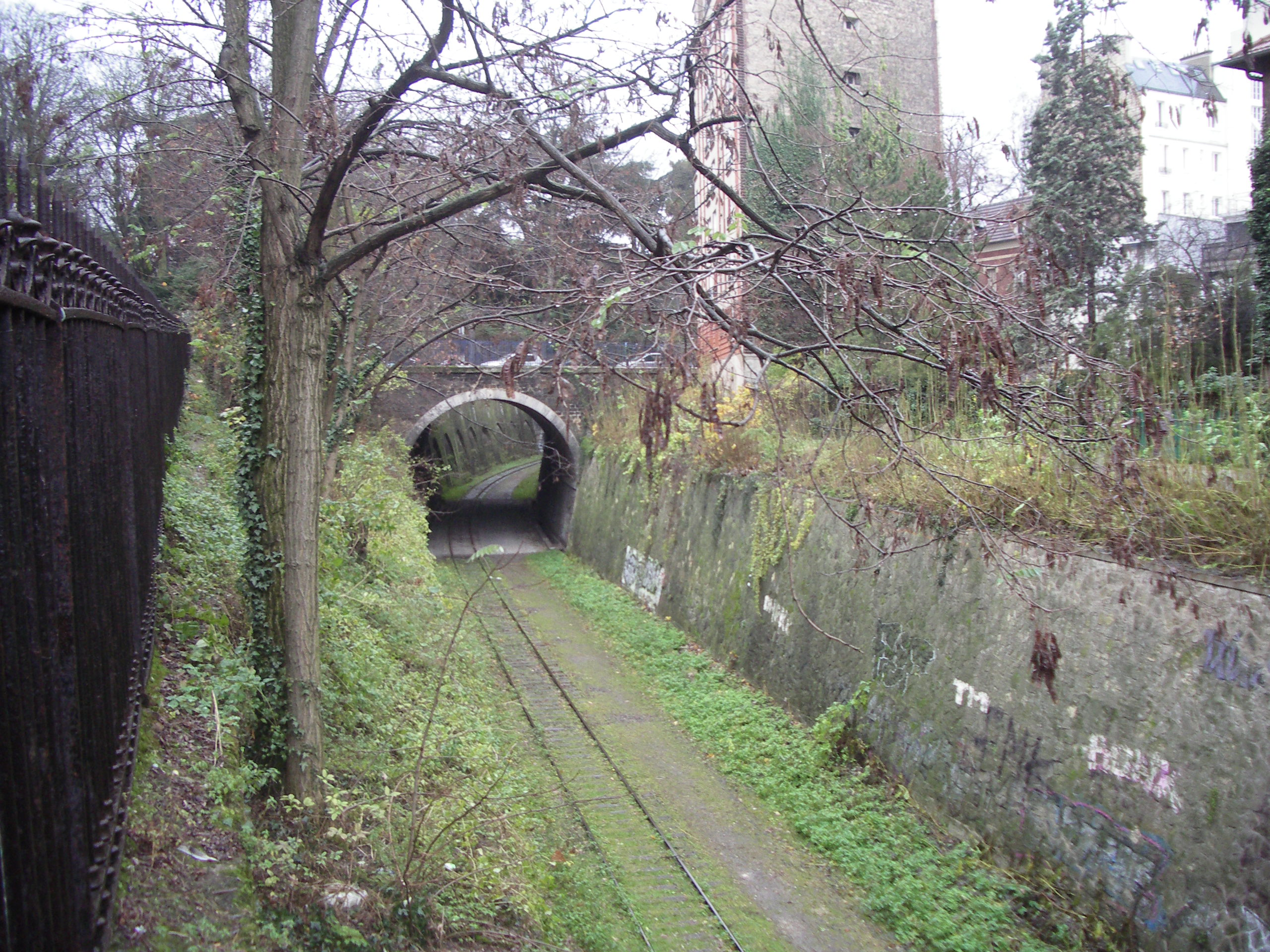 Former "Petite Ceinture" railway line at Paris, France, toward the Parc Montsouris, taken from corner of Rue de l'Amiral Mouchez and Rue Liard.